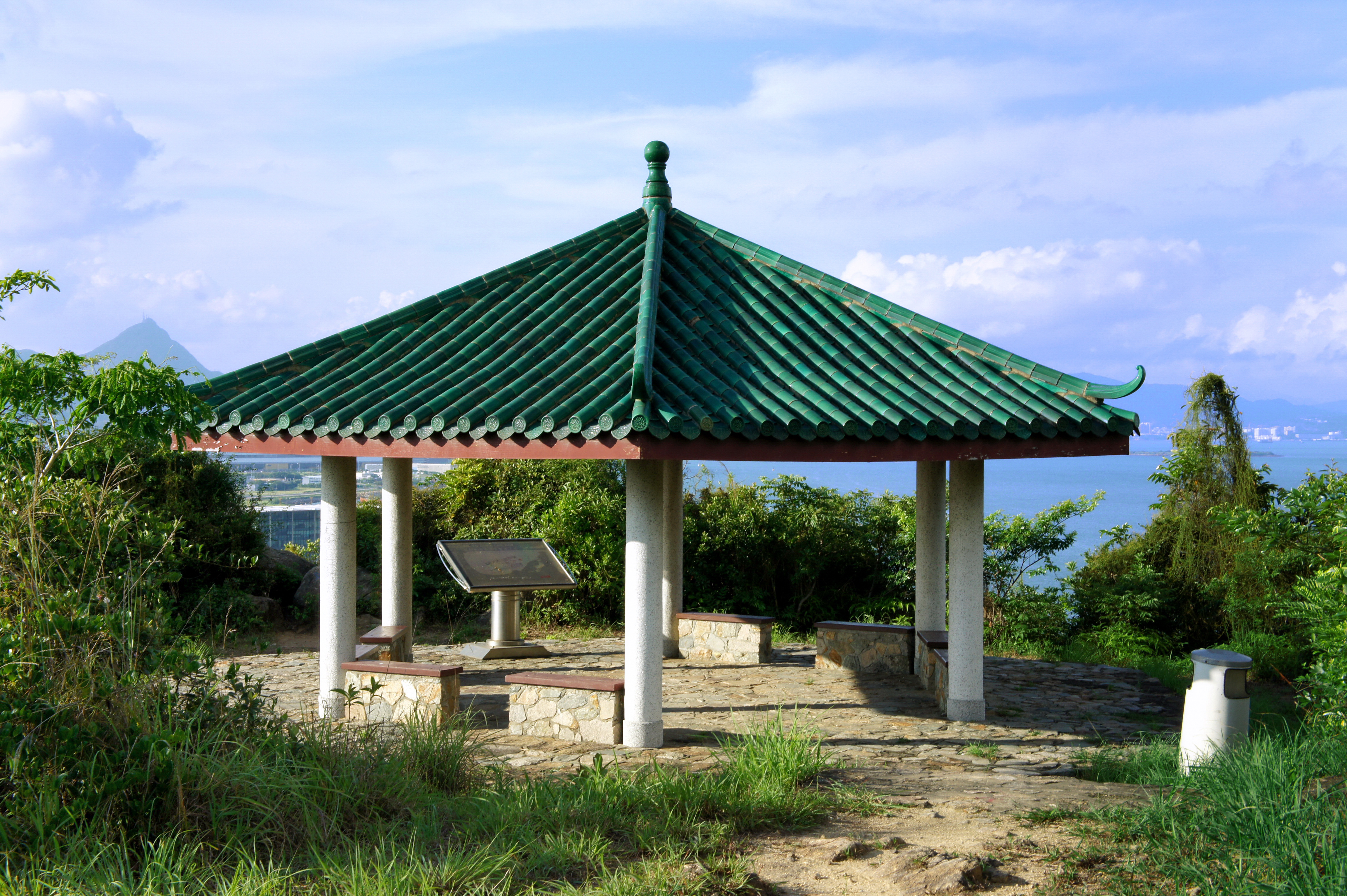 A hexagonal pavilion at the Chek Lap Kok Scenic Hill.